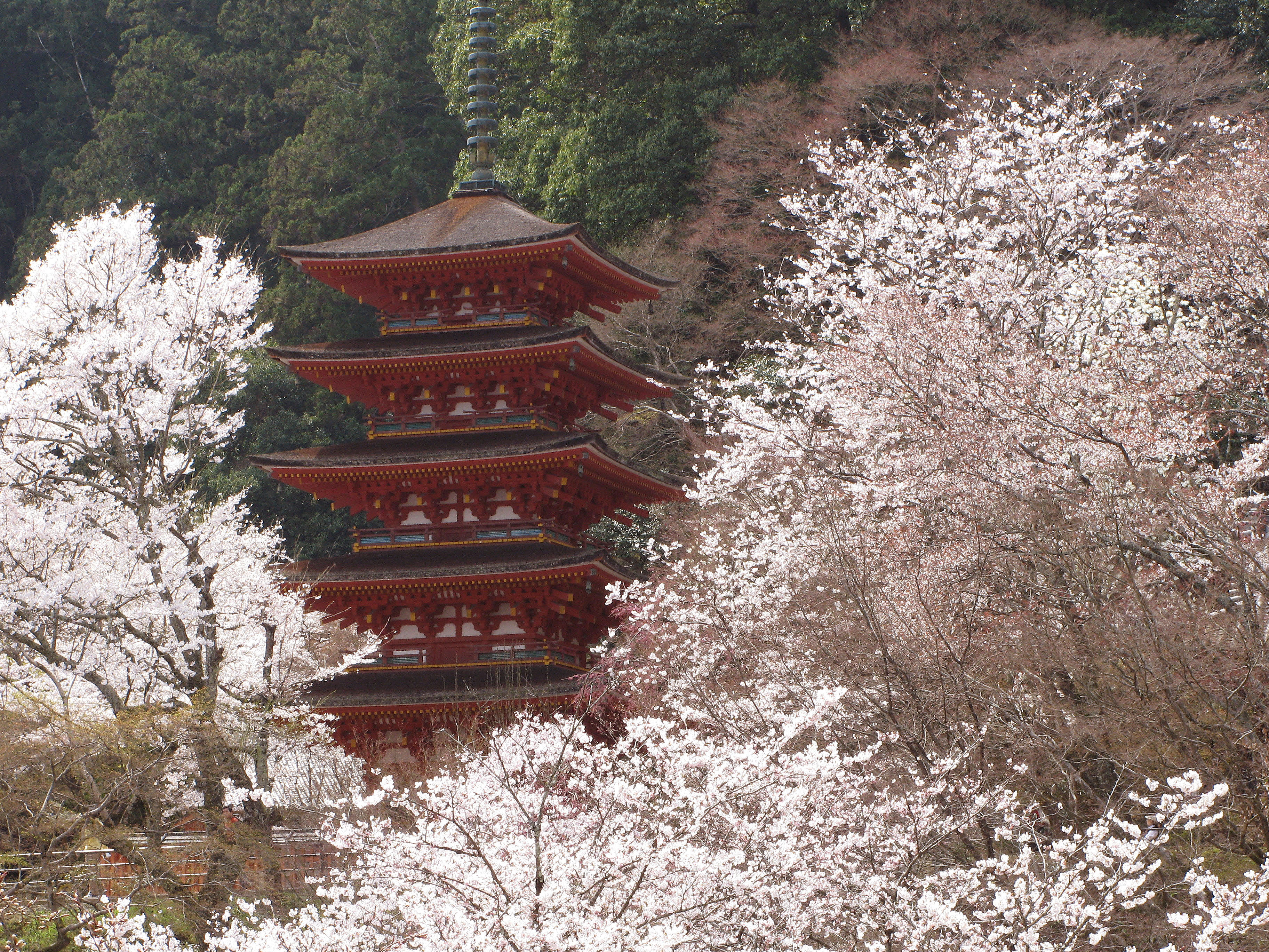 Hase-dera five Storeyed Pagoda and cherry trees